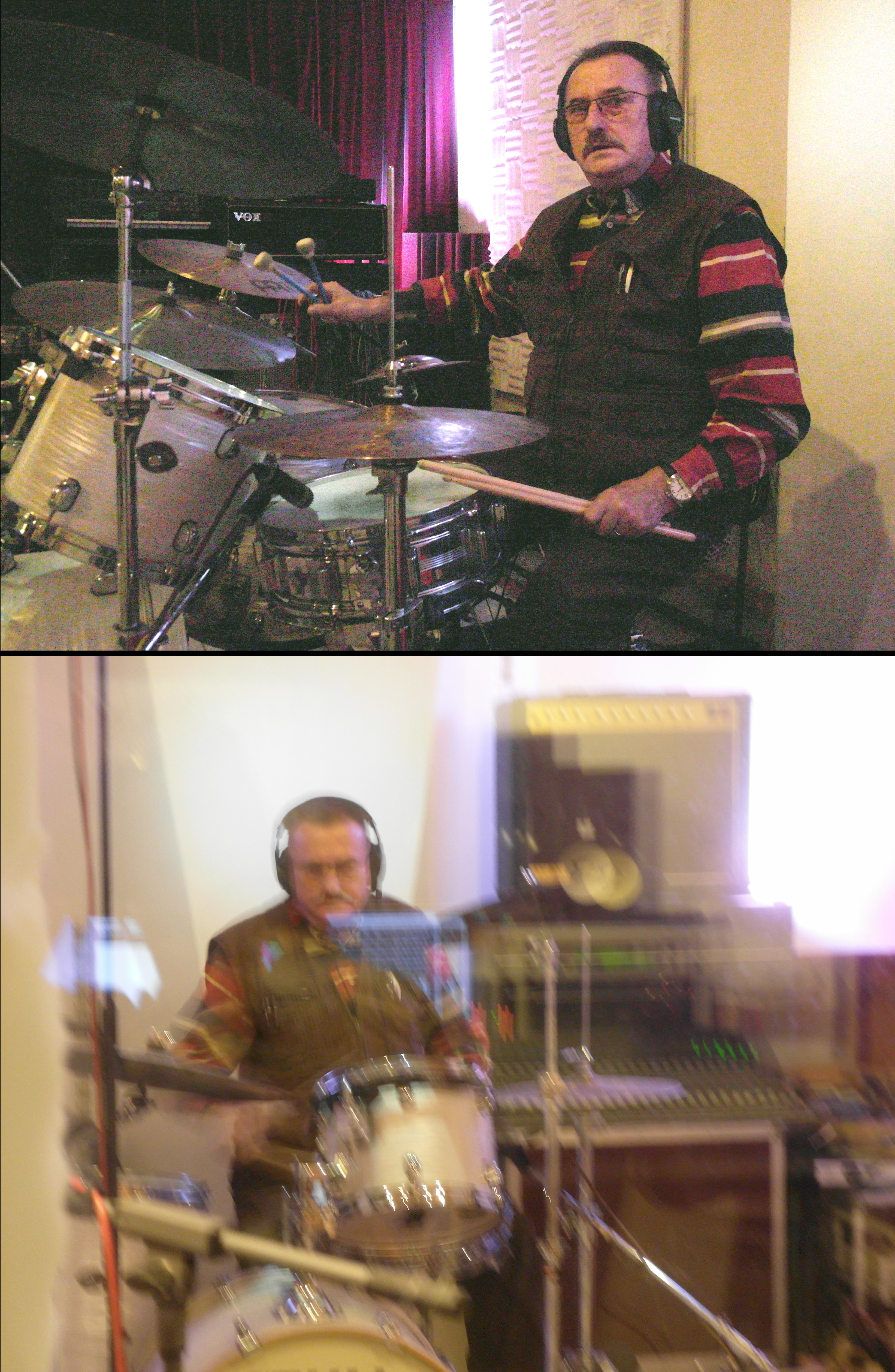 See file name and description in ReformARTsextet. This shot was taken during a recording session. Please note that camera's EXIF time stamp was set to UTC.